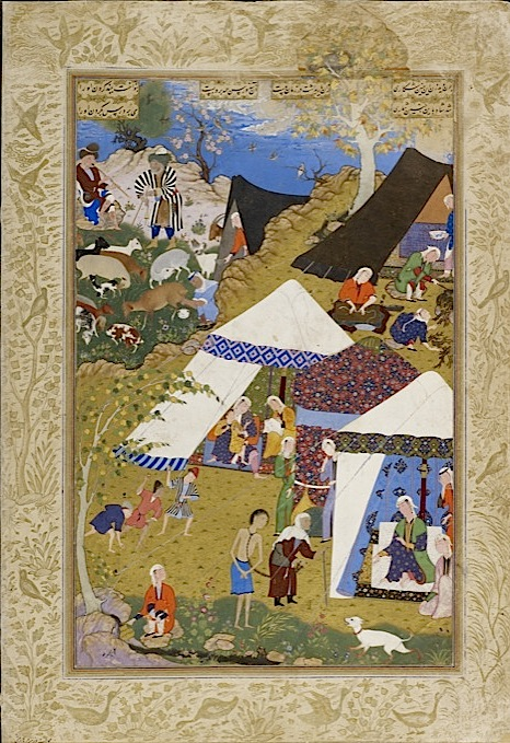 Majnun is brought in chains to Layla's tent. From Nizami's Layla Majnun. Painted by the 16th-century Safavid court artist Mir Sayyid Ali from Tabriz.